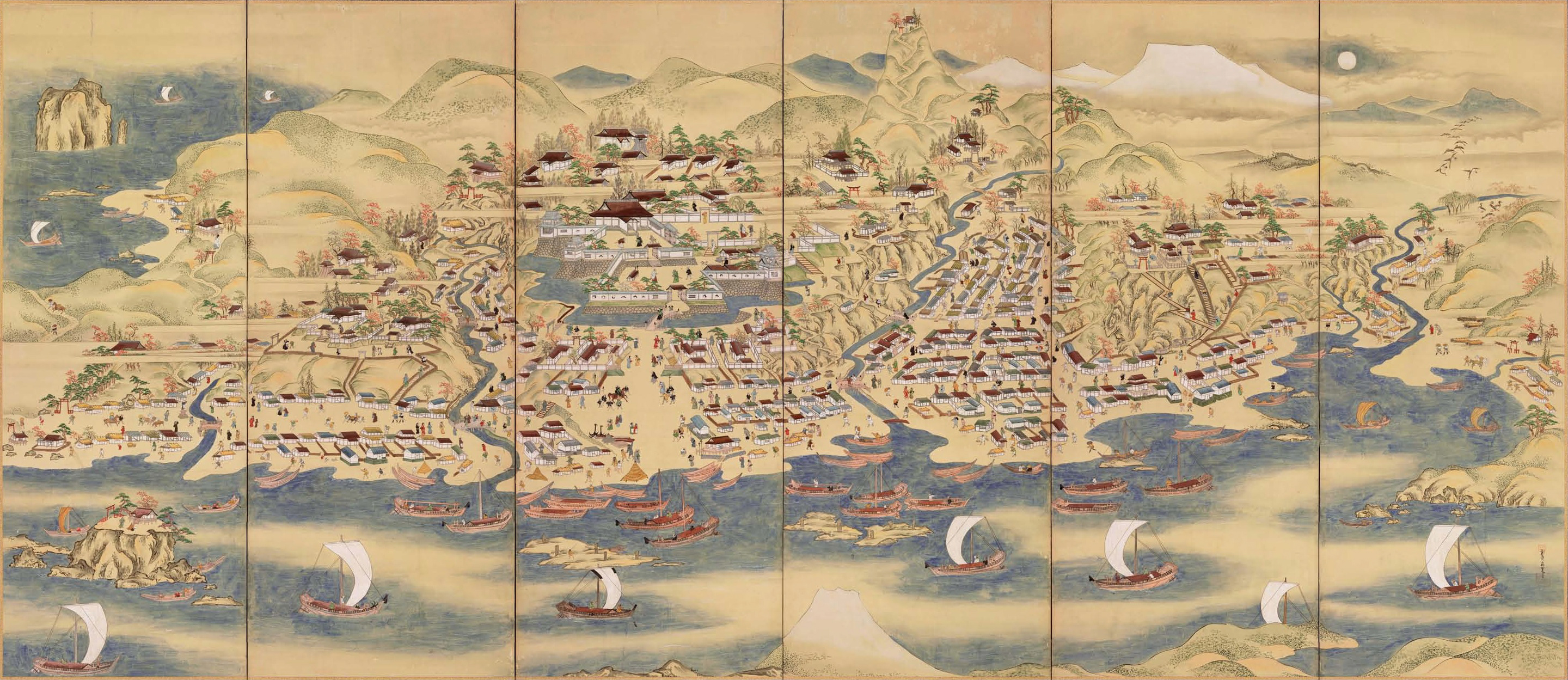 Byobu of Matsumae by Kodama Teiryo, Matsumae Town Historical Museum, Matsumae, Hokkaido, Japan